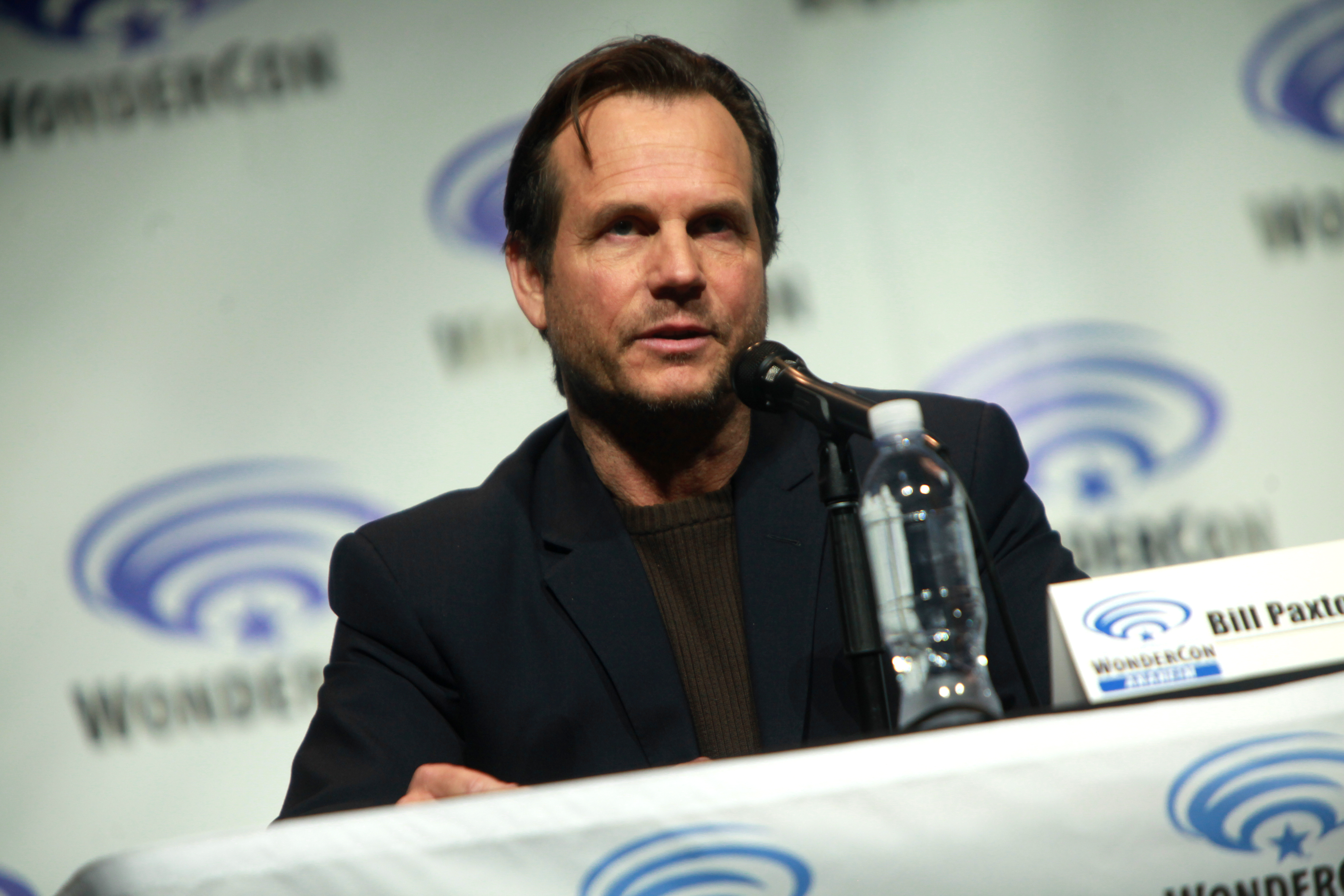 Bill Paxton speaking at the 2014 WonderCon, for "Edge of Tomorrow", at the Anaheim Convention Center in Anaheim, California.